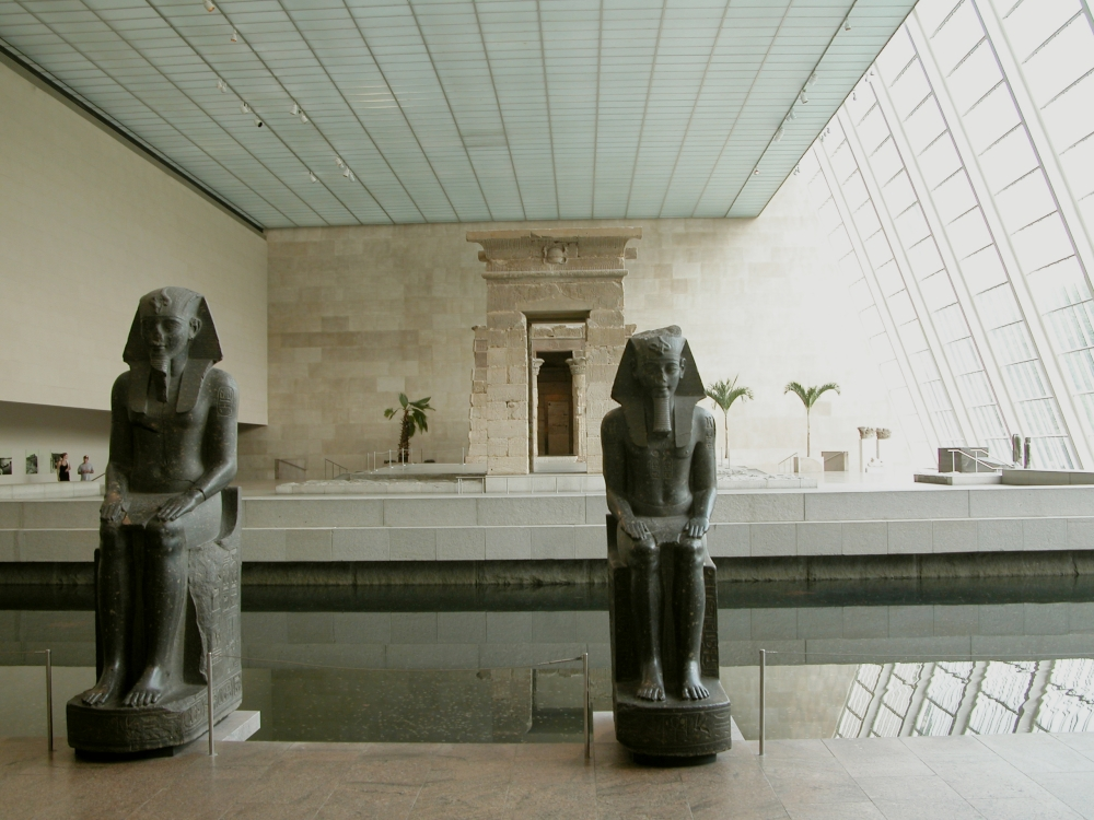 Metropolitan Museum of Art, New York, USA